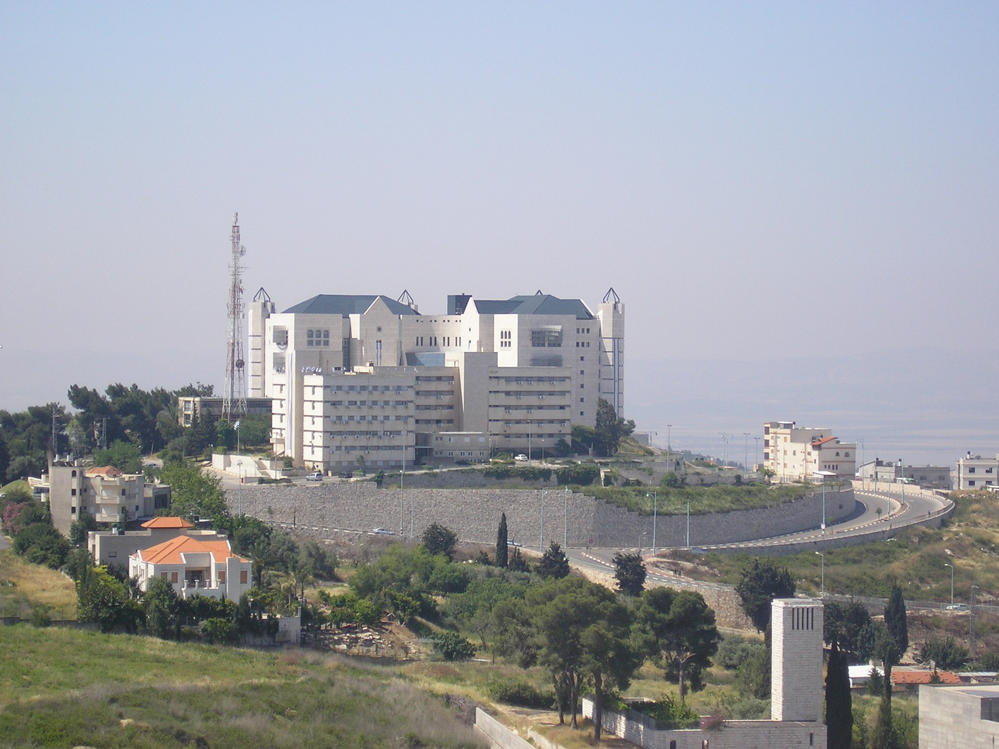 Government compound named after Itzhak Rabin in Nazerat Illit, Israel. I took this picture